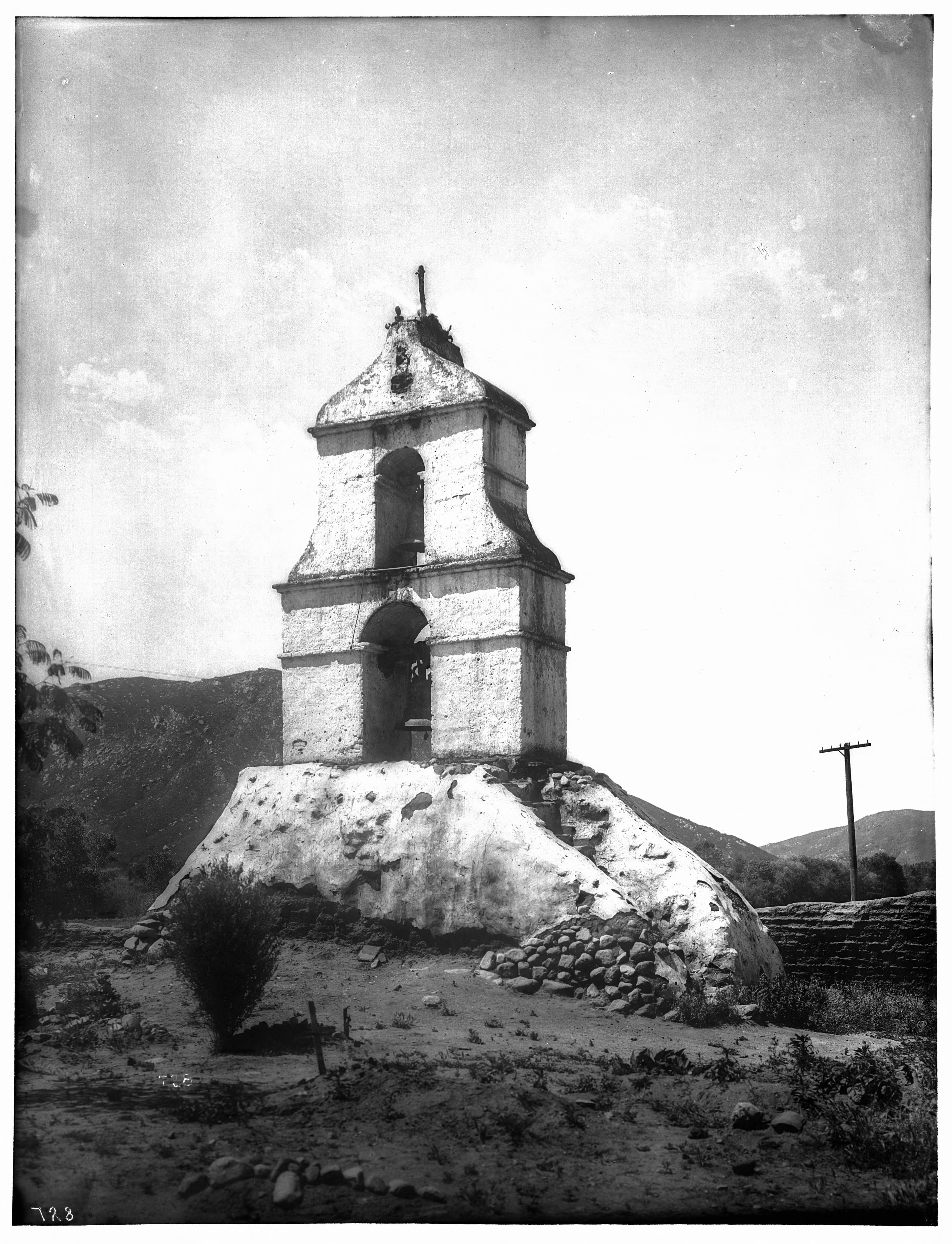 Rear of bell tower at Mission Asistencia of San Antonio at Pala, ca.1888-1903 Photograph of rear view of bell tower showing steps leading up to tower, which are not visible from the front, ca.1888-1903. Utility pole and lines visible behind. Mountains in background. Call number: CHS-728 Filename: CHS-728 Coverage date: circa 1888/1903 Part of collection: California Historical Society Collection, 1860-1960 Format: glass plate negatives Type: images Geographic subject (city or populated place): Pala; Pala Repository name: USC Libraries Special Collections Accession number: 728 Microfiche number: 1-141-11 Archival file: chs_Volume48/CHS-728.tiff Part of subcollection: Title Insurance and Trust, and C.C. Pierce Photography Collection, 1860-1960 Repository address: Doheny Memorial Library, Los Angeles, CA 90089-0189 Geographic subject (country): USA Format (aacr2): 2 photographs : glass photonegative, photoprint, b&w ; 22 x 17 cm. Rights: Digitally reproduced by the USC Digital Library; From the California Historical Society Collection at the University of Southern California Subject (adlf): religious facilities Project: USC Repository Contributing entity: California Historical Society Date created: circa 1888/1903 Publisher (of the digital version): University of Southern California. Libraries Format (aat): photographic prints; photographs Geographic subject (state): California Subject (file heading): San Diego -- Missions, Spanish -- Bell Towers; Missions -- Mission Asistencia of San Antonio at Pala Legacy record ID: chs-m4441; USC-1-1-1-4537 Access conditions: Send requests to address or e-mail given. Phone (213) 821-2366; fax (213) 740-2343. Geographic subject (county): San Diego Subject (lcsh): Missions, Spanish; Bell towers